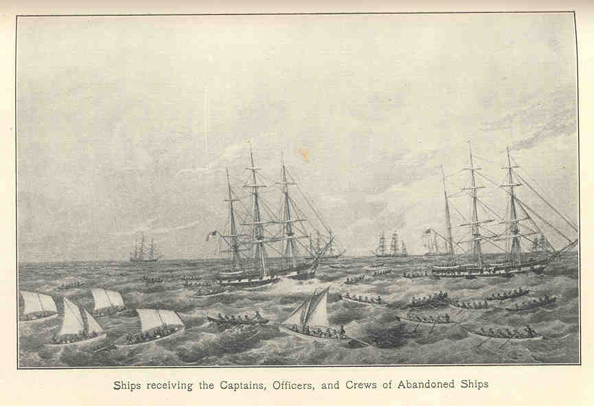 Ships receiving the Captains, Officers, and Crews of Abandoned Ships Subject: Whaling ships, Shipwrecks Tag: Vessels